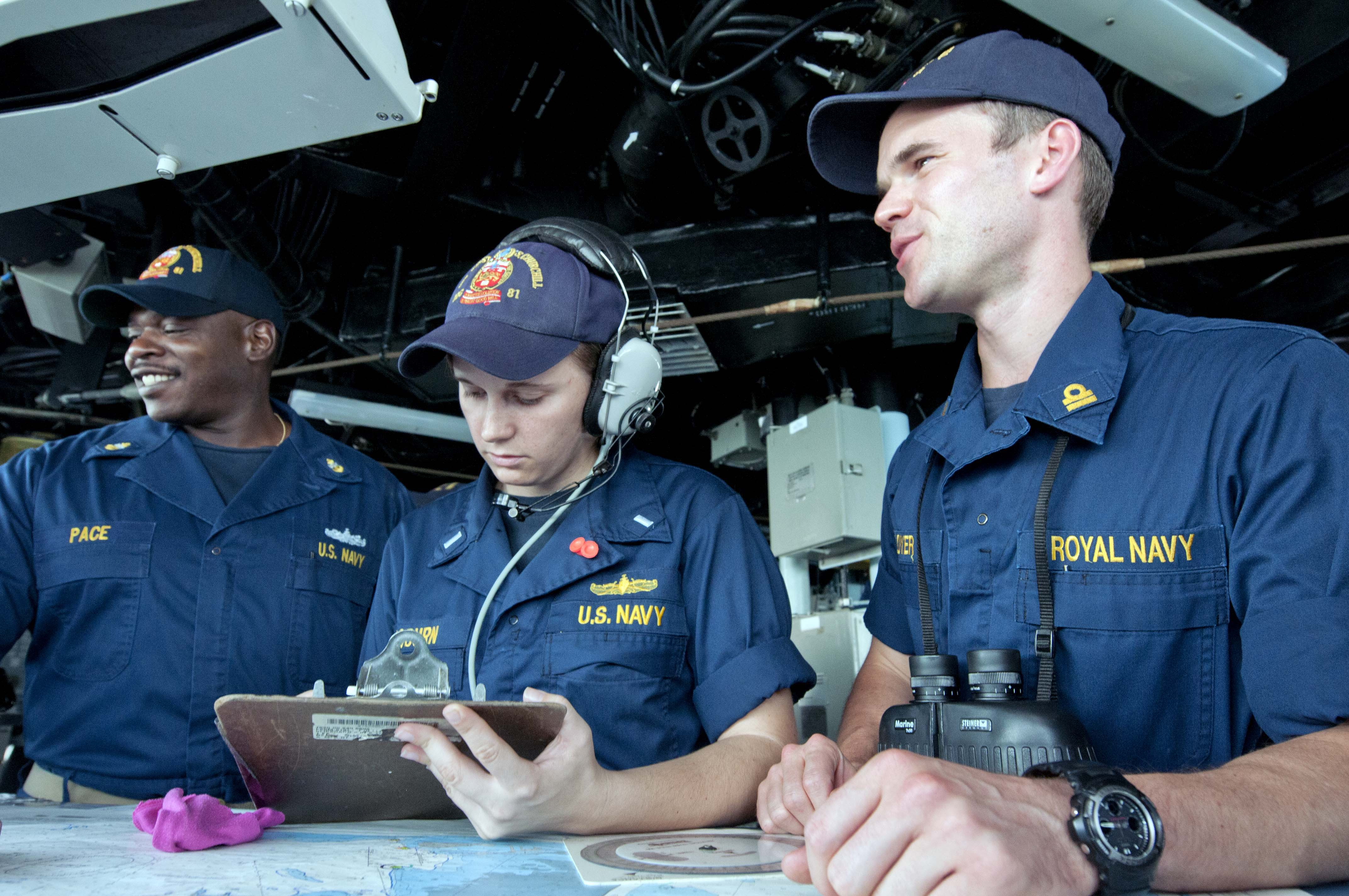 U.S. 5TH FLEET AREA OF RESPONSIBILITY (Sept. 5, 2012) Chief Quartermaster Lashon Pace, left, Lt. j.g. Erica C. Coburn, and Royal Navy Lt. Hugo G. Floyer check and record readings at the navigation table on the bridge of the guided-missile destroyer USS Winston S. Churchill (DDG 81). Floyer, Churchill's navigator, is filling the only permanent position for a foreign exchange officer on a U.S. warship. Winston S. Churchill is deployed to the U.S. 5th Fleet area of responsibility conducting maritime security operations, theater security cooperation efforts and support missions for Operation Enduring Freedom. (U.S. Navy photo by Mass Communication Specialist 2nd Class Aaron Chase/Released) 120906-N-YF306-042 Join the conversation navylive.dodlive.mil